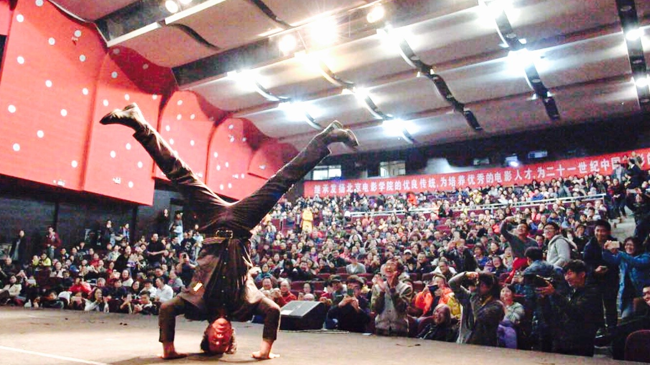 Frédéric Guillaume performing Yoga on stage after the presentation of Les Années Claires (Clear Years) at the International Documentary Forum in Beijing